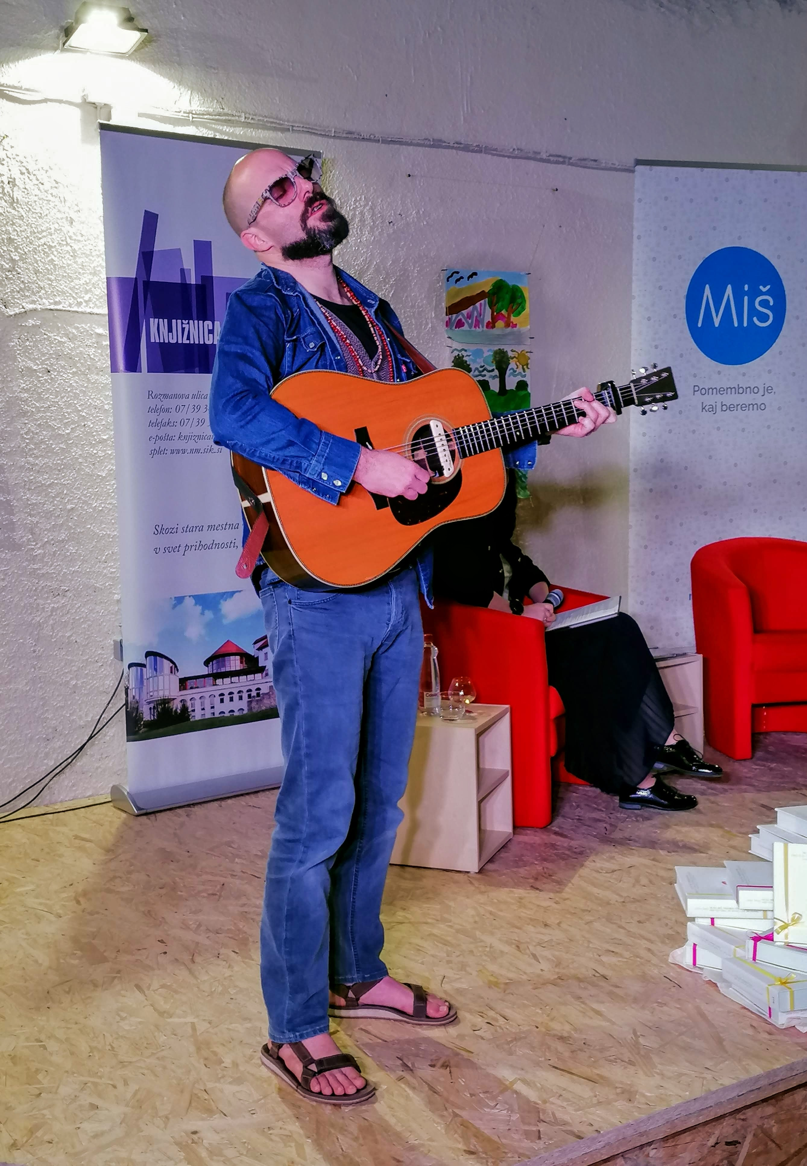 Rudi Bučar, singer